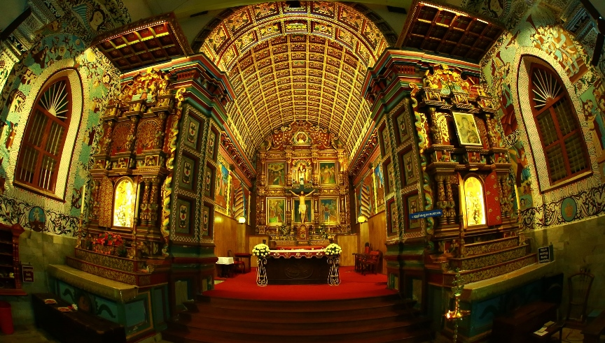 St.Mary's Forane Church, Kanjoor